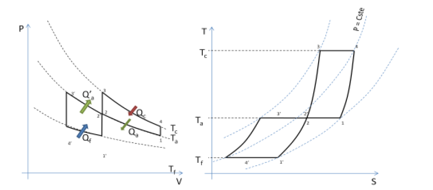 P-v diagram of Vuilleumier machine